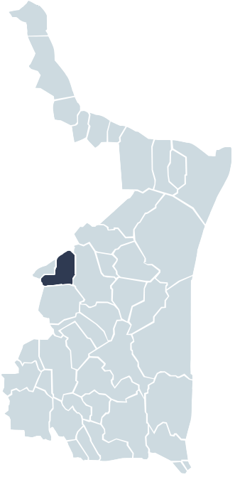 Municipality of Villagran Tamaulipas